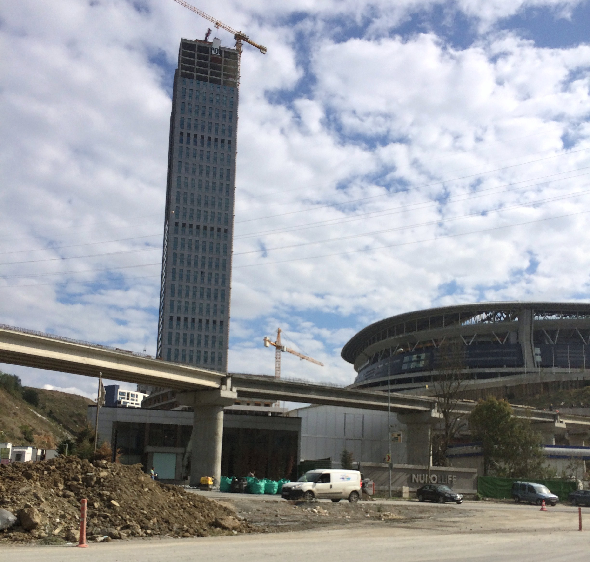 Vadistanbul Monorail